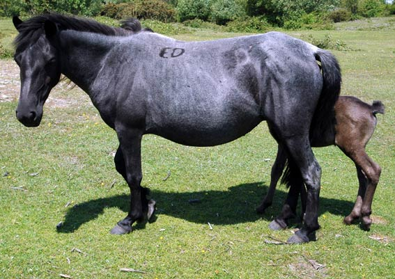 Blue Roan New Forest Pony with bay foal